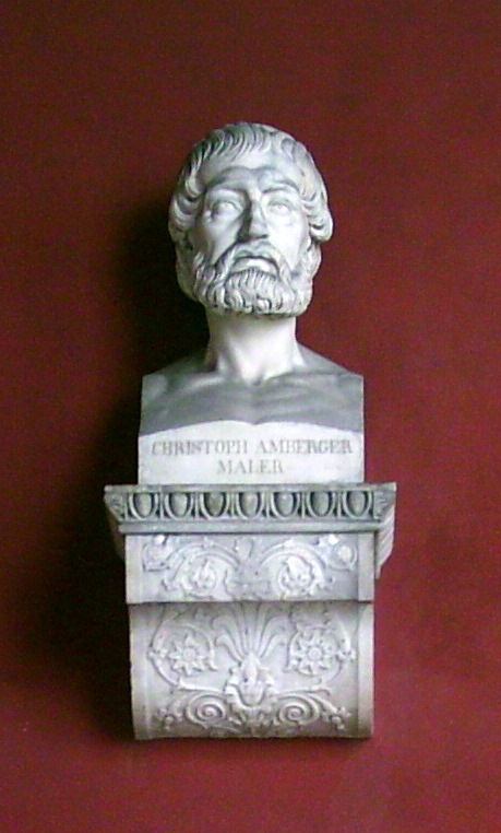 Bust of Christoph Amberger at Ruhmeshalle ("Hall of fame"), München, Germany. Picture taken by myself: Dominik Hundhammer, München, 27 March 2006.